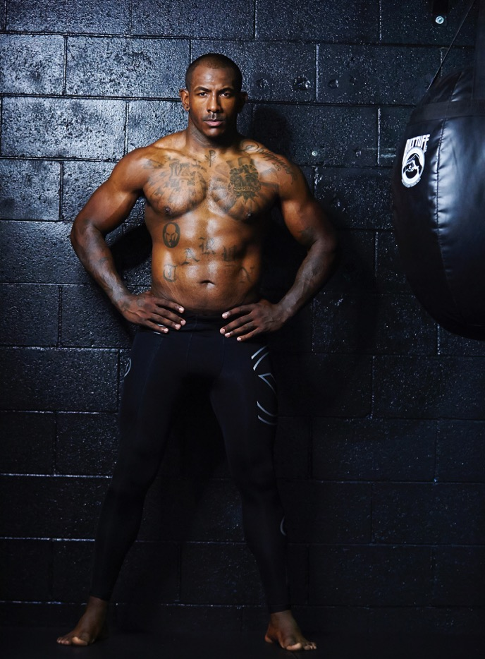 Early Khalil